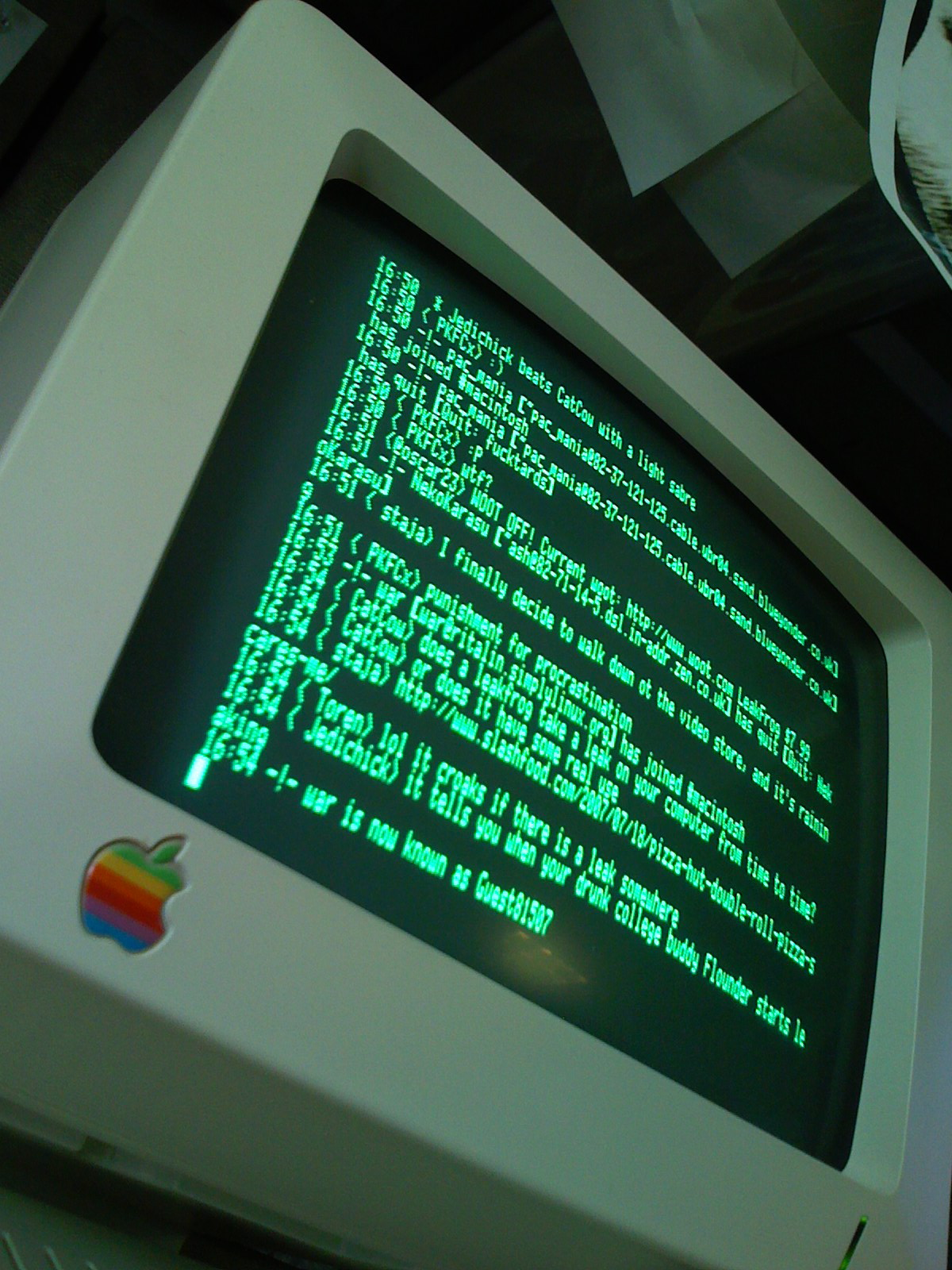 DALnet on macintosh through irssi